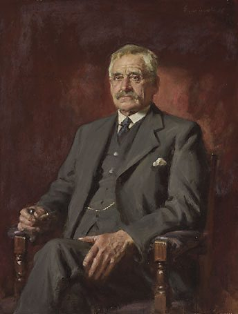 AB (Banjo) Paterson, painting, oil on canvas, 90.5 x 84.3 cm, by John Longstaff - Winner: Archibald Prize 1935